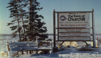 Sign welcoming visitors to Churchill, Manitoba